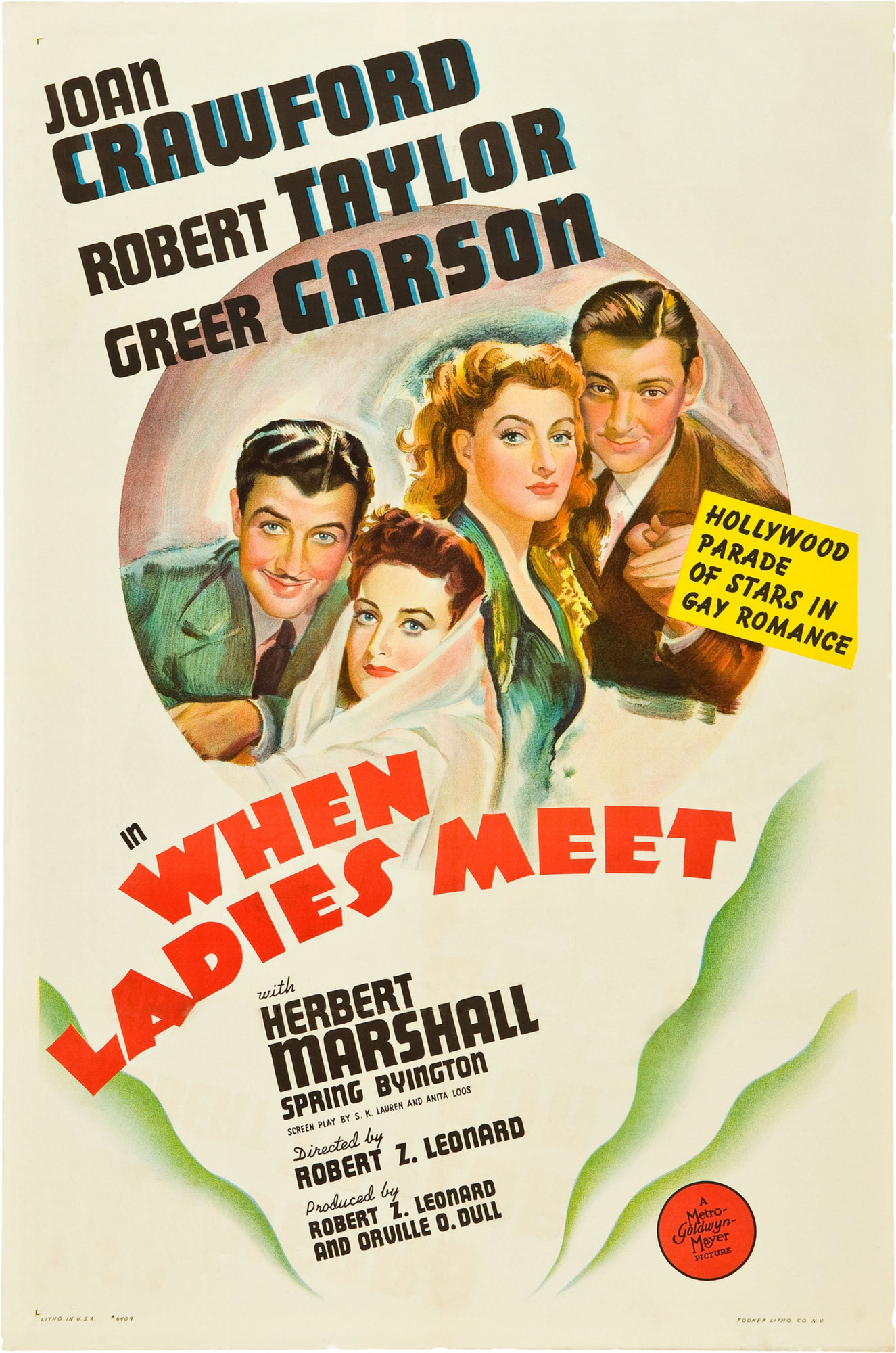 Poster for the 1941 film When Ladies Meet.. The item has no copyright markings on it as can be seen in the links above. At bottom left is Litho in USA and #6409. At bottom right is Tooker Litho Co. NY-they printed the poster.